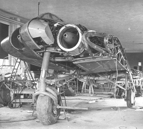 Horten Ho 9 (Go 229) Prototype V-3 was captured on April 14th, 1945 by the VIII Corps in Friedrichsroda/Thuringa, when it was near completion. The V3 with the haul number T2-490 was brought to the United States by ship.